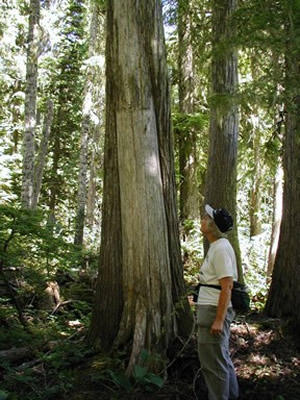 A Culturally Modified Tree in Goat Rocks Wilderness, a part of Gifford Pinchot National Forest, Washington, USA